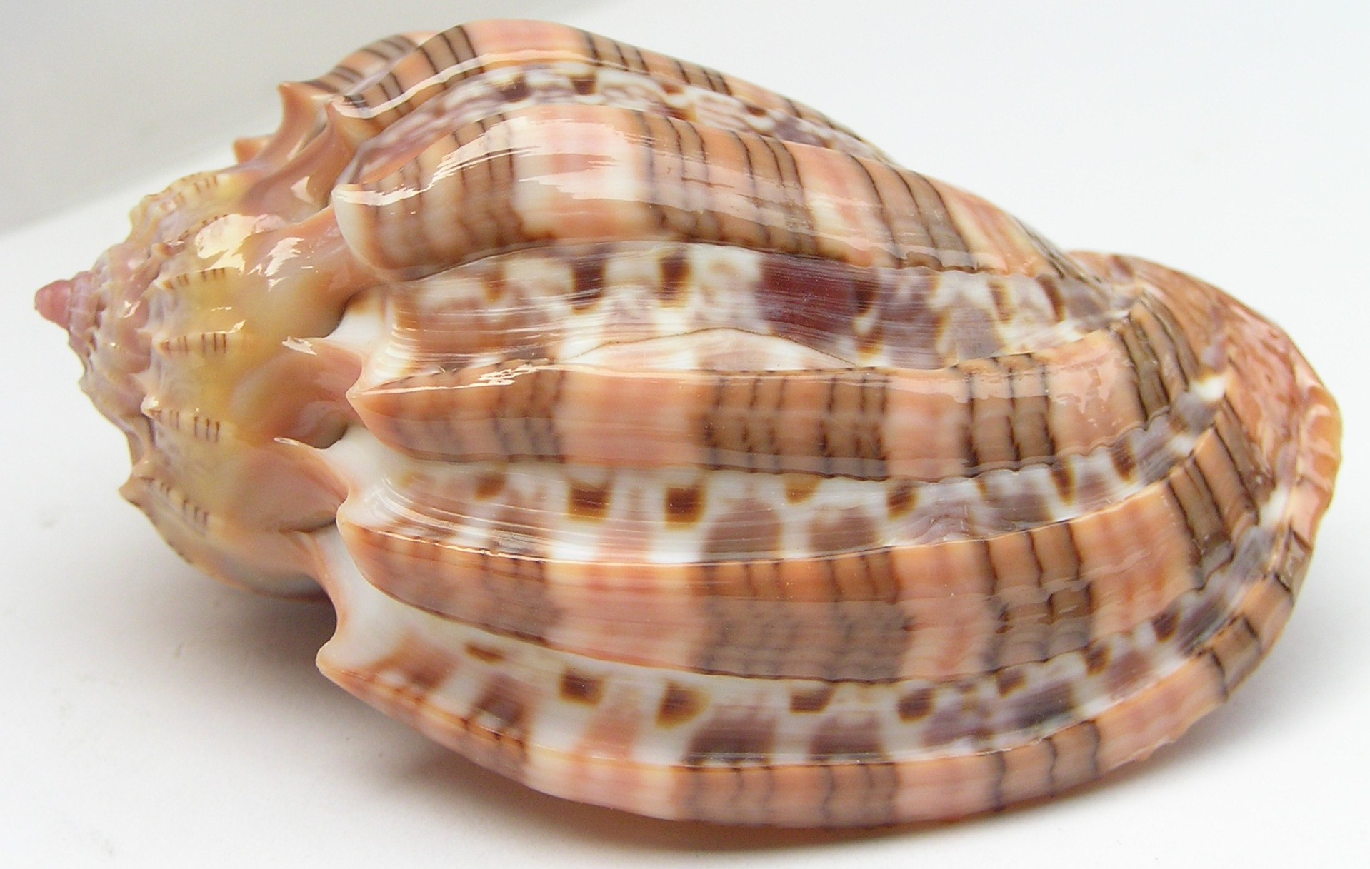 Lateral view of Harpa harpa (Linnaeus, 1758) (August 19, 2009). Original description (of Buccinum harpa Linnaeus, 1758) in Linnaeus, C. (1758). Systema Naturae per regna tria naturae, secundum classes, ordines, genera, species, cum characteribus, differentiis, synonymis, locis. Editio decima, reformata [10th revised edition], vol. 1: 824 pp. Laurentius Salvius: Holmiae.[1]